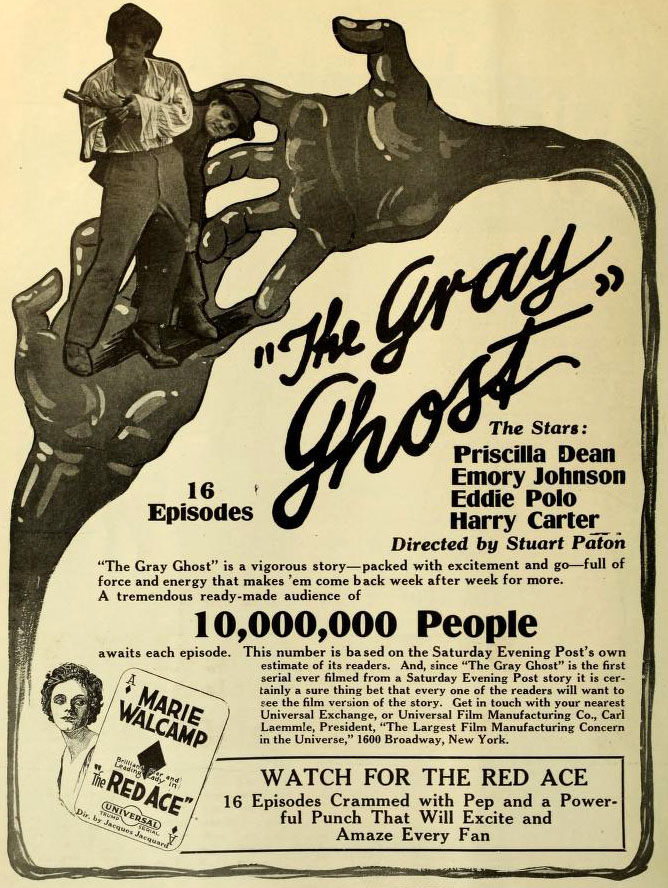 Advertisement in Moving Picture World for the American film serial The Gray Ghost (1917).